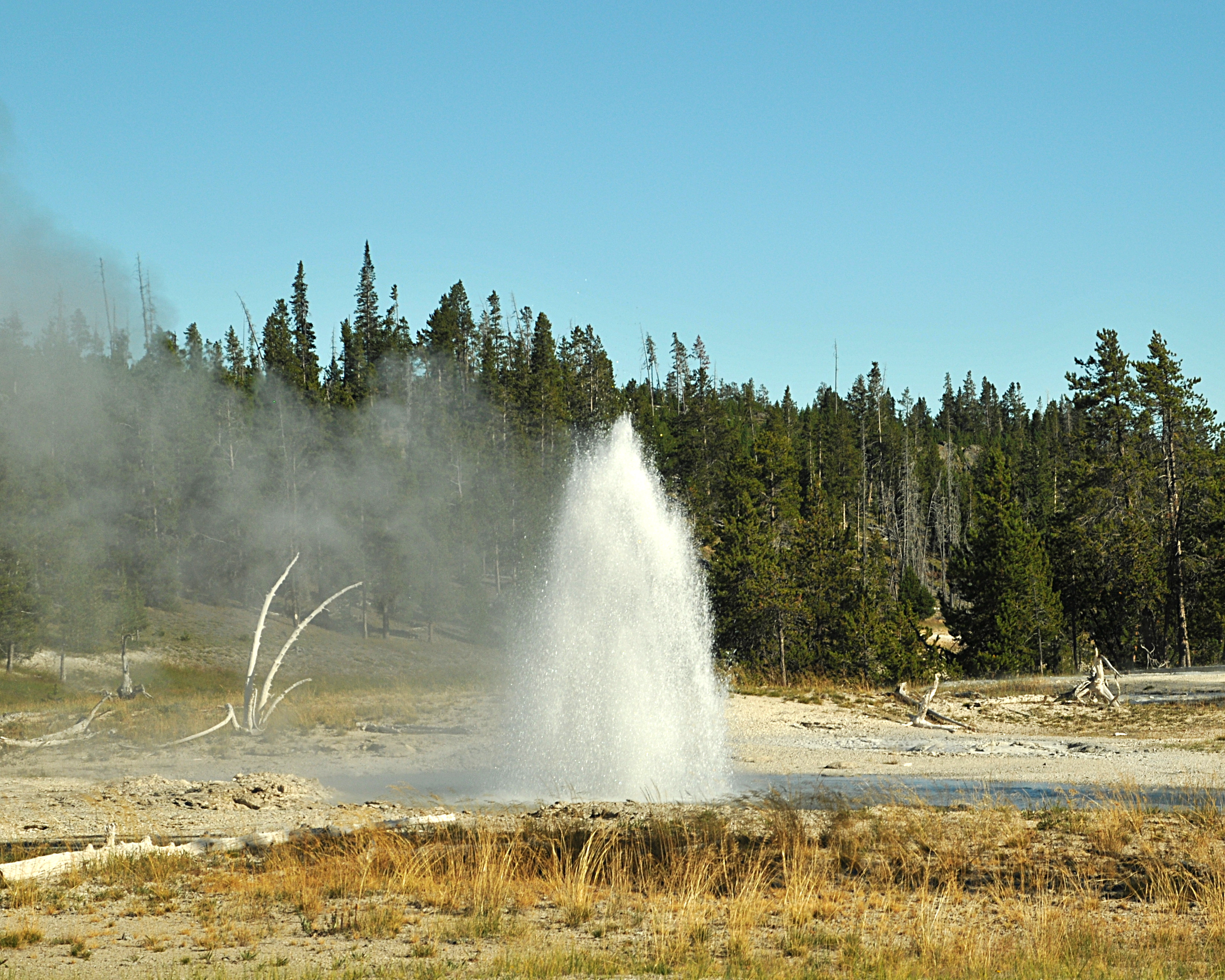 Grotto Fountain Geyser. Next to the larger Grotto Geyser, these two geysers usually erupt at the same time. Upper Geyser Basin, Yellowstone National Park, WY